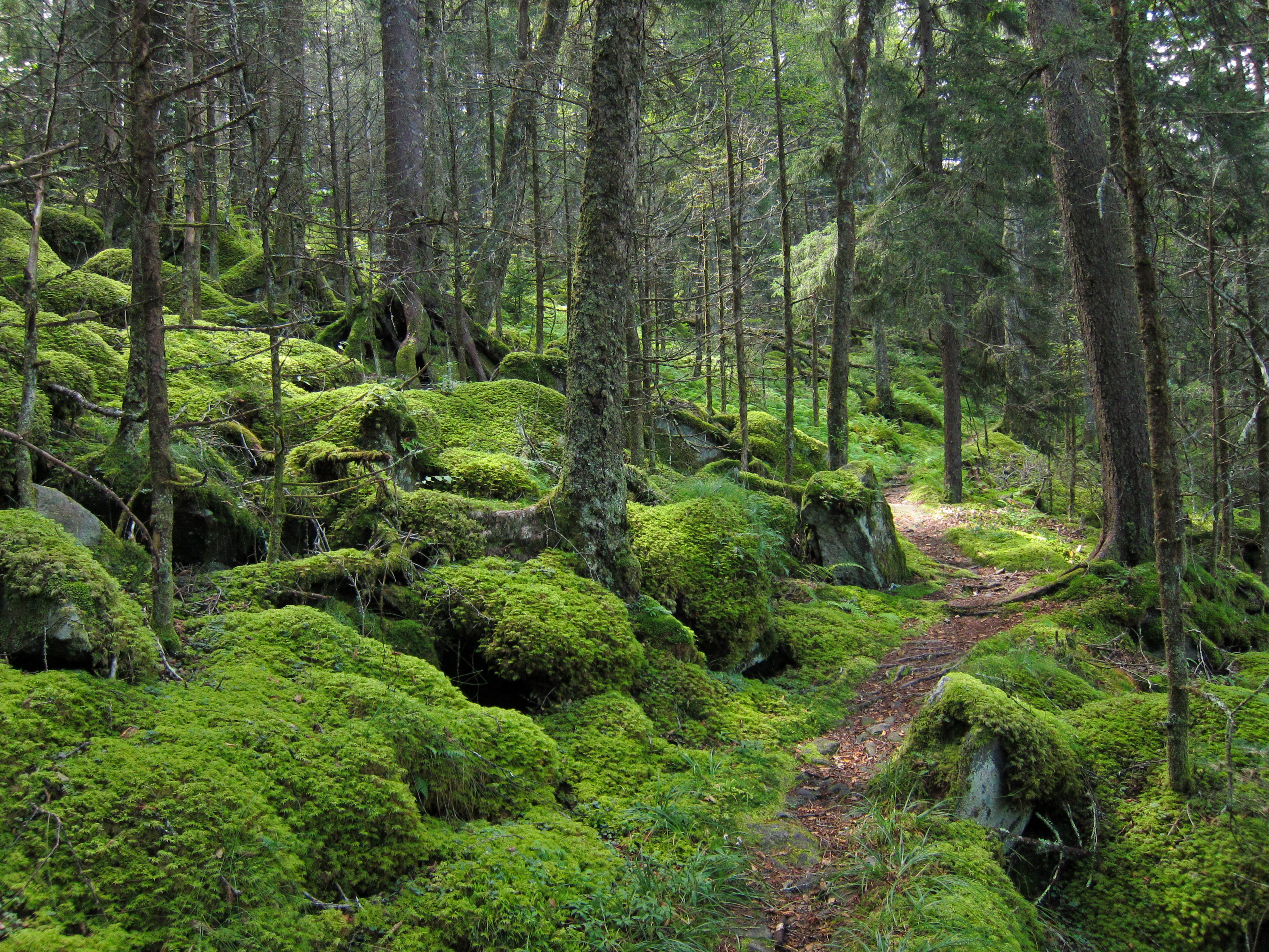 Spruce-fir forest near Mount Sterling on the Baxter Creek Trail in Great Smoky Mountains National Park